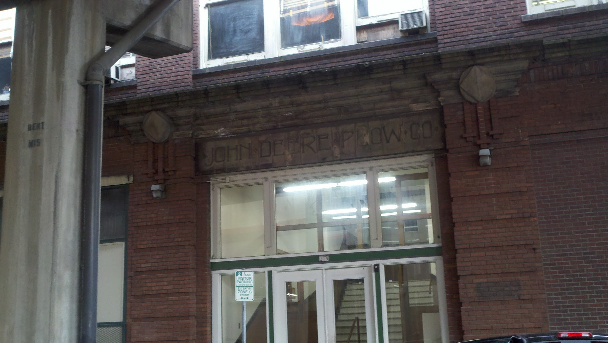 In the early 20th century, this building was John Deere's principal warehouse and distribution center for the Pacific Northwest. This entrance is now underneath a viaduct for the Morrison Street Bridge.